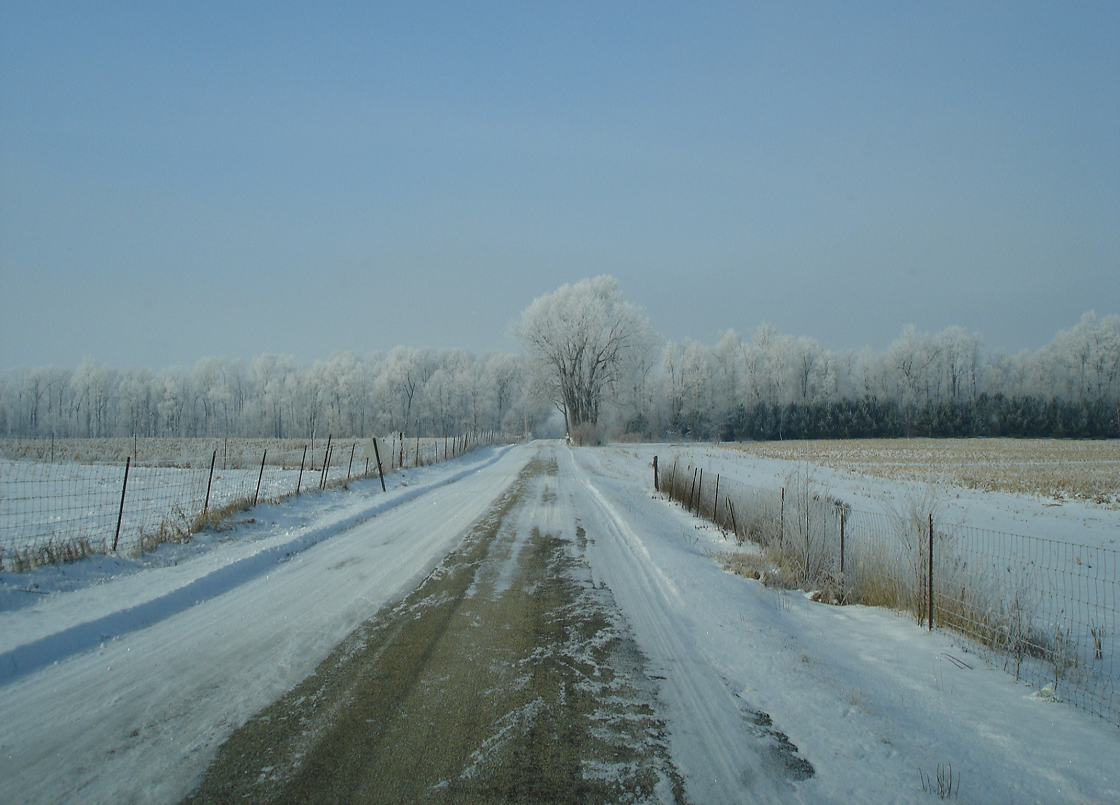 Winter in Chester Township, Manchester County, Indiana.